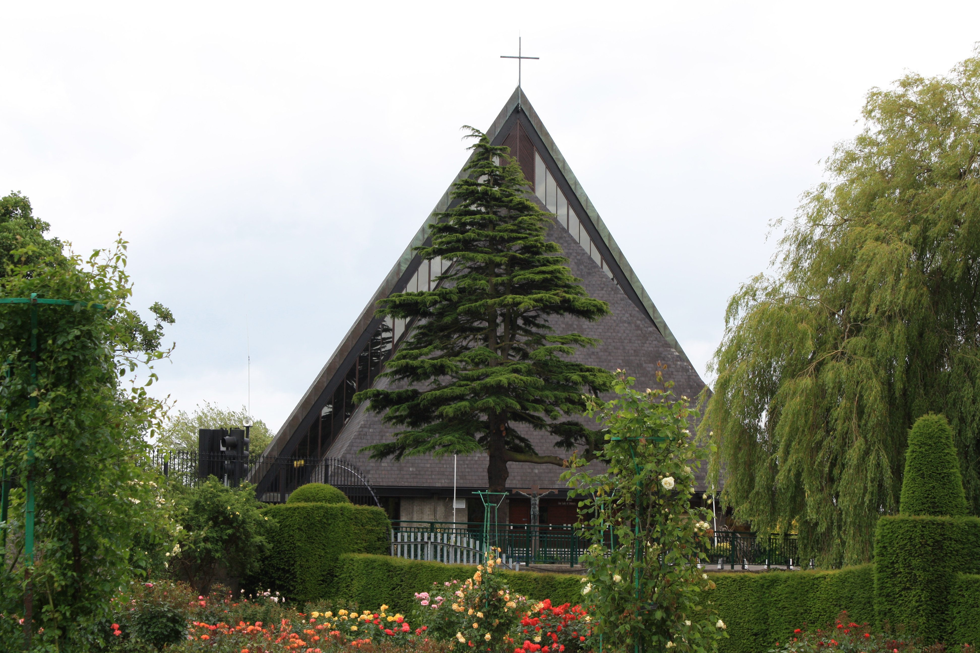 A Church near National Botanic Garden,Dublin,Ireland